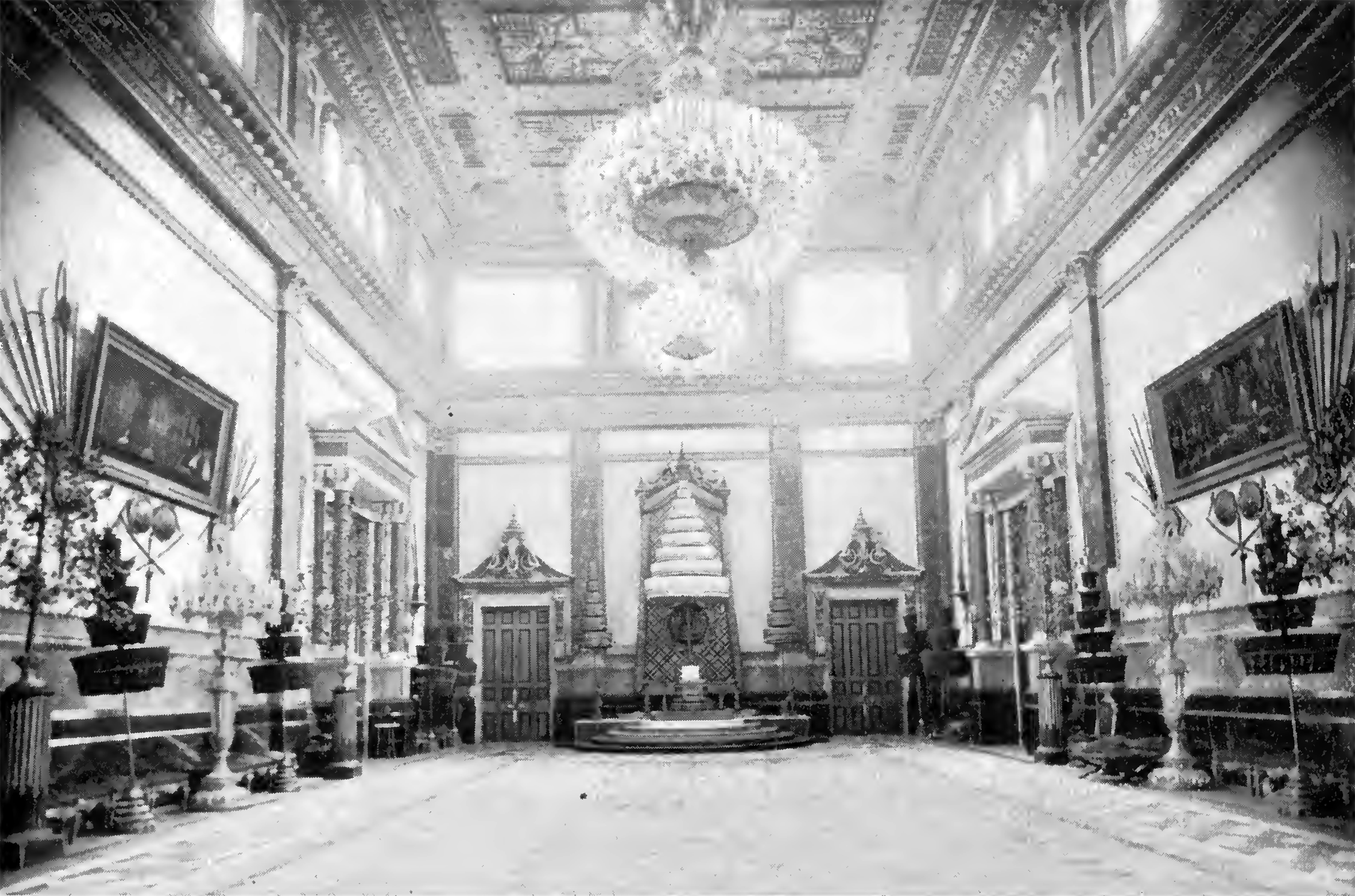 Original caption: Interior of the throne room. Uploader's caption: The interior of, perhaps, the throne hall Chakkri Maha Prasat (Thai: จักรีมหาปราสาท; literally "Great Castle of Chakkri"), Bangkok.